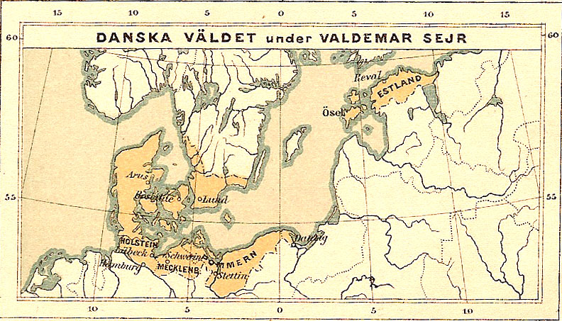 Historic map (swedish) of the danish kingdom under Valdemar Sejr